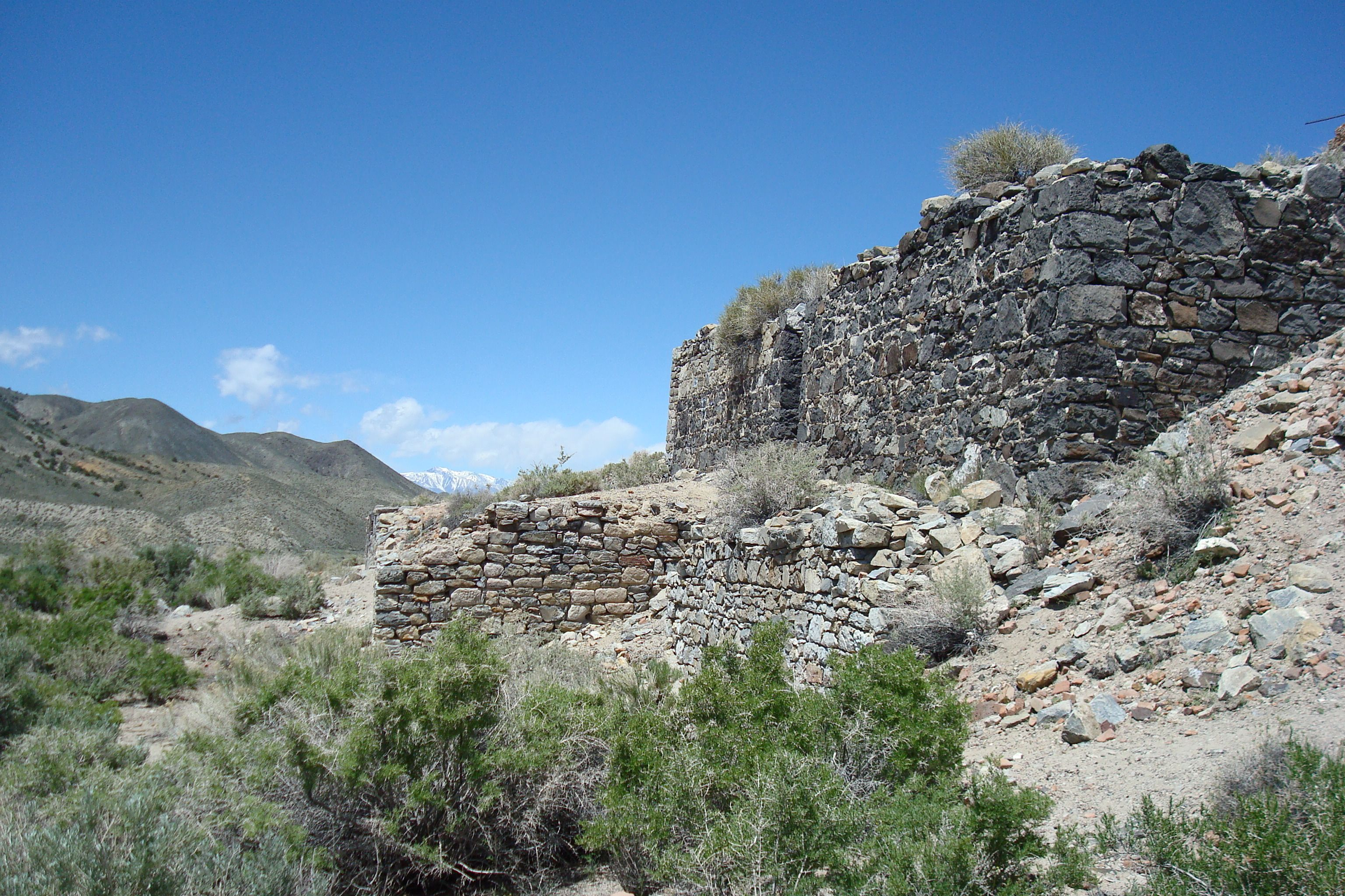 Palmetto Post Office and Sierra Nevada